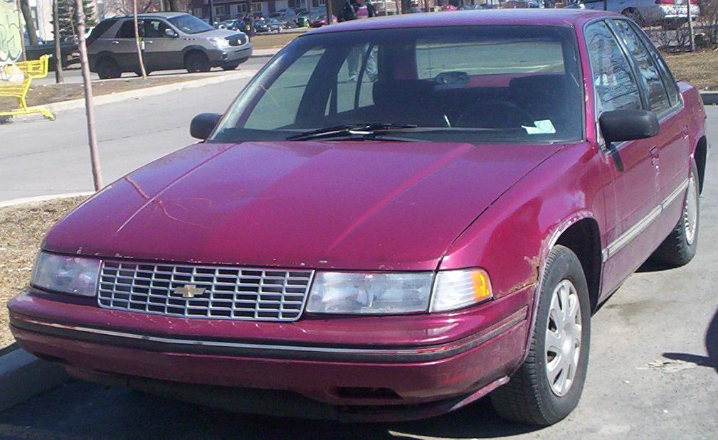 1990-1991 Chevrolet Lumina photographed in Montreal, Quebec, Canada.